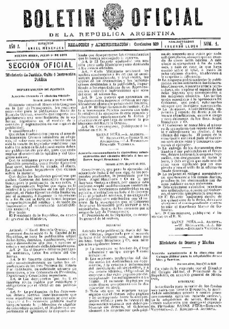 First page of the first issue (01/07/1893) of the Boletín oficial de la República Argentina (Official gazette of the Argentine Republic).